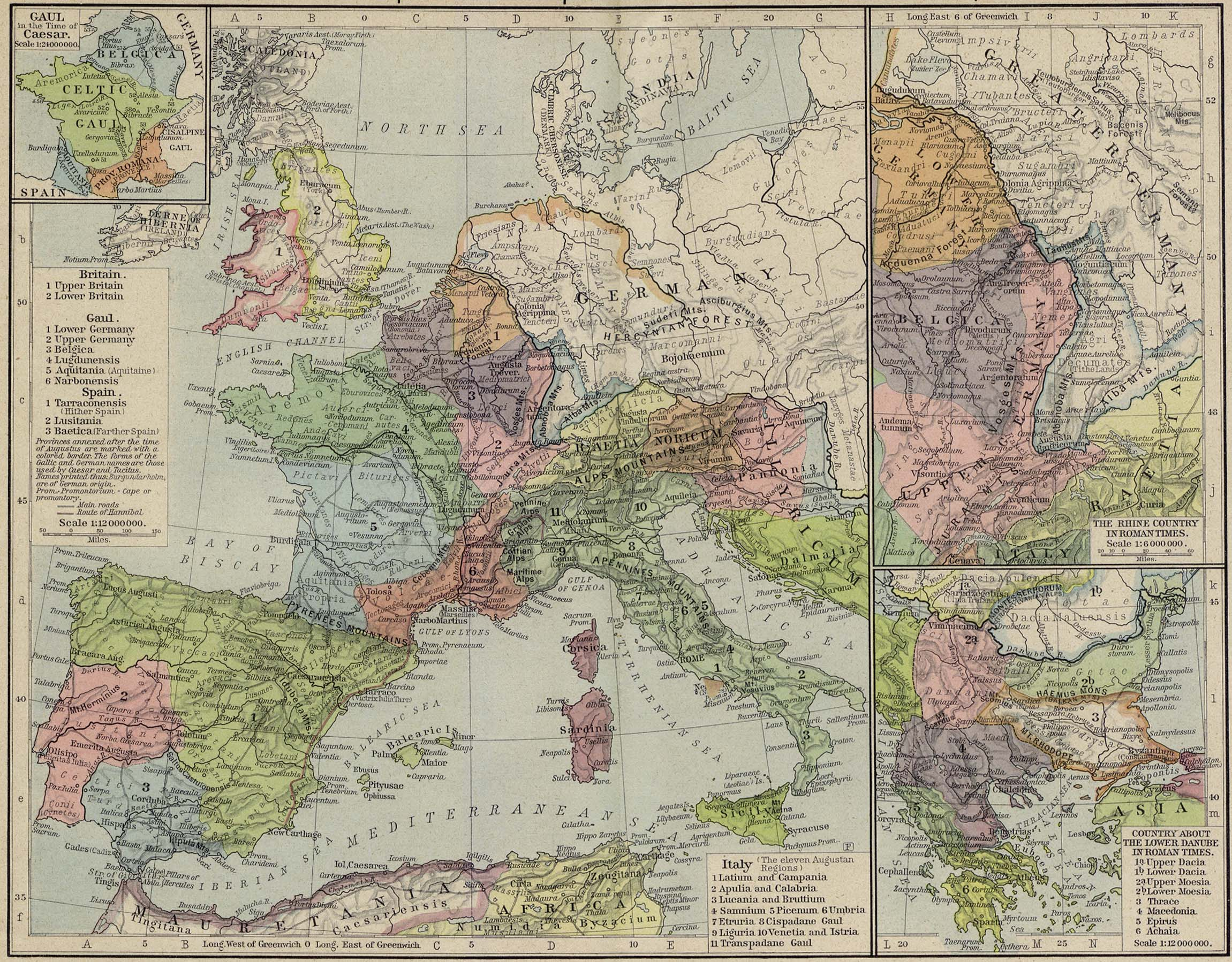 Reference Map of the European Provinces of the Roman Empire by William R. Shepherd Insets: Gaul in the Time of Caesar. The Rhine Country in Roman Times. Country about the Lower Danube in Roman Times.